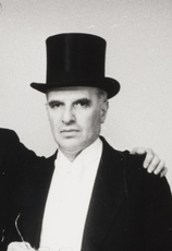 Peter Hunter (=Otto Salomon) (left) and his father Erich Salomon (right) (London, 1935) (Collection International Center of Photography (ICP), New York)